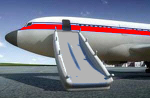 Emergency exit slide ready for use. Dr. Wessmann 2006